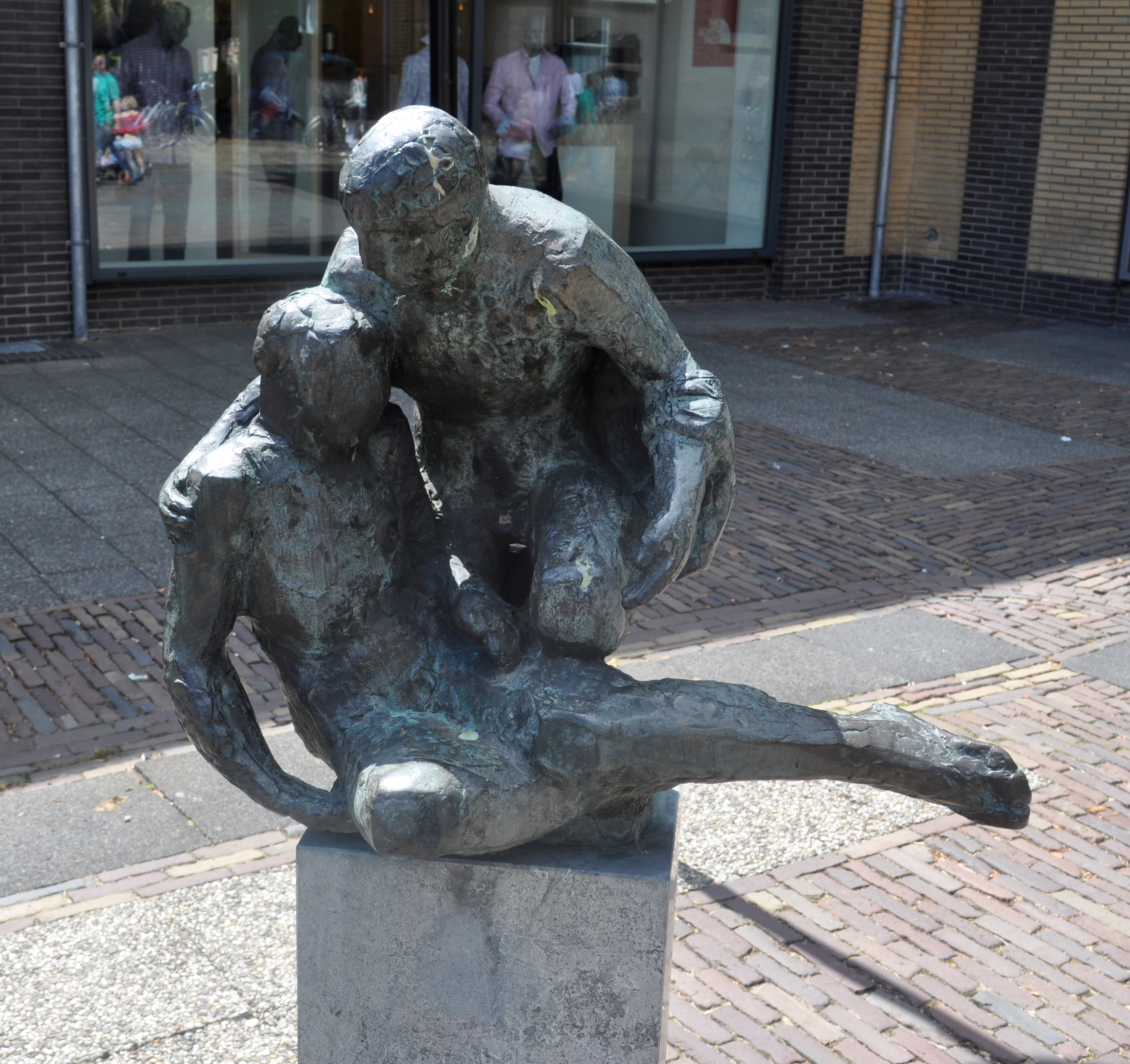 Sculpture "De barmhartige Samaritaan" (the Good Samaritan) by Frank Letterie in 1976, placed in 1997 at the square at the Dorpsstraat/Kerkweg in Putten.